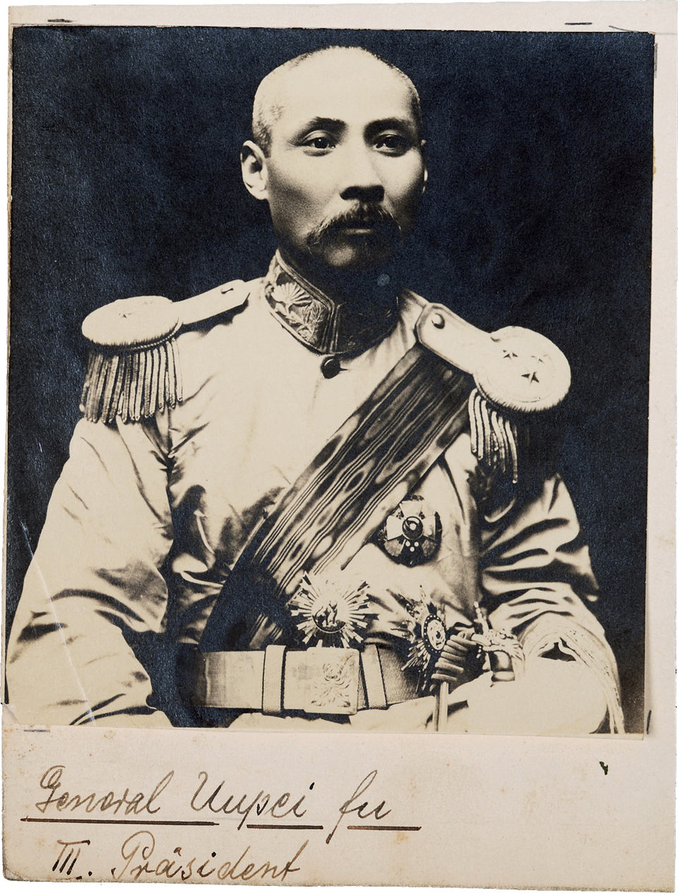 Duan Qirui段祺瑞, president of the Republic of China. Died in 1936